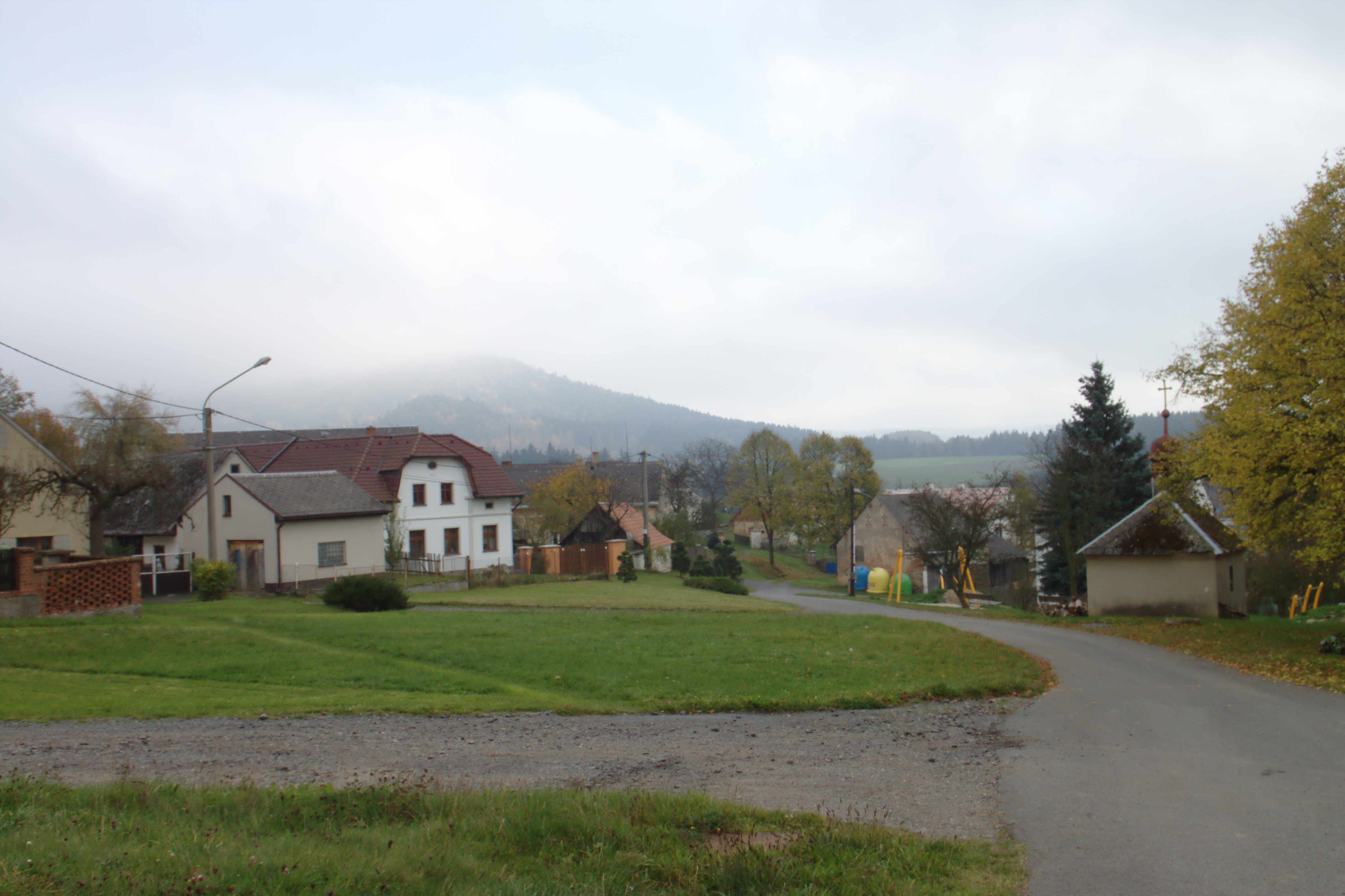 A common in the village of Zhořec, Plzeň Region, CZ